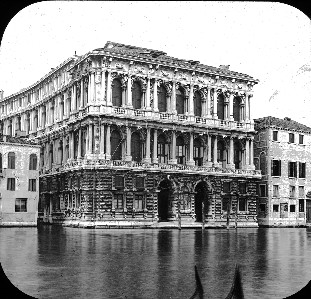 Venice, Pesaro Palace, Italy. Brooklyn Museum Archives, Goodyear Archival Collection (S03_06_01_027 image 3323).